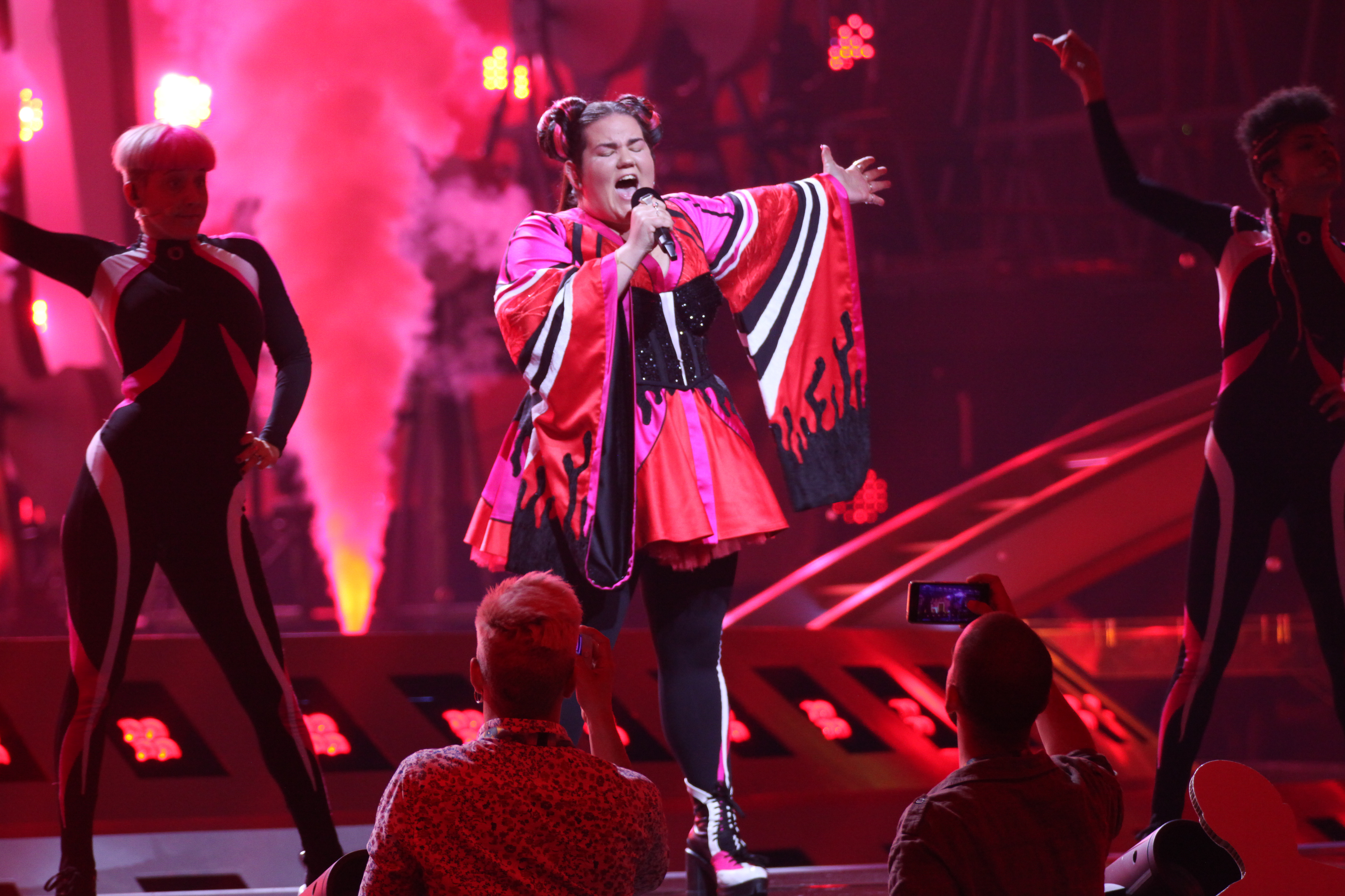 Netta representing Israel with the song "Toy" during a rehearsal before the grand final of the Eurovision Song Contest 2018 in Lisbon.